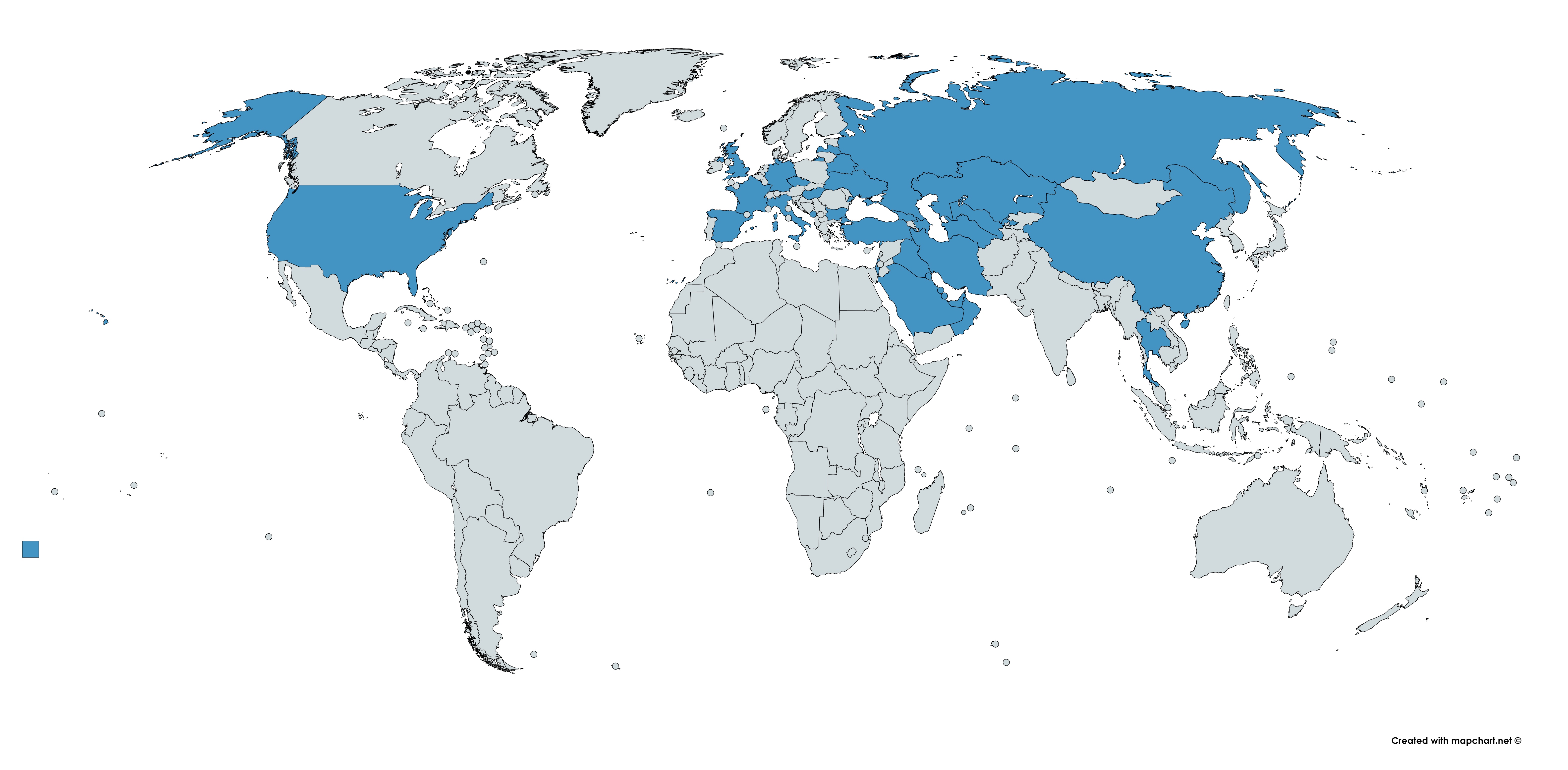 Heydar Aliyev International airport passenger destinations